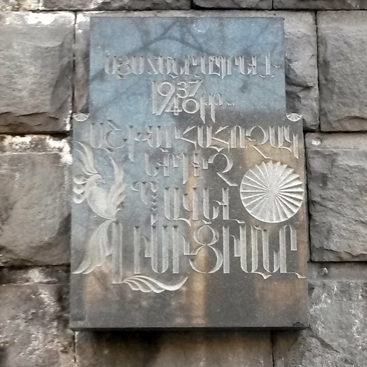 Pavel Lisitsyan's plaque, Yerevan